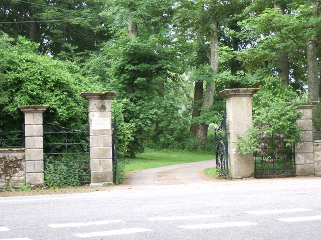 West gateway to Glenkindie House